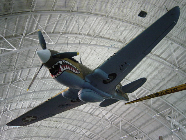 A war bird in National Air & Space Museum. I believe this is a P-40 Tomahawk based on the shark's mouth drawing and the US insignia.